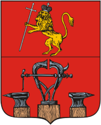 Aleksandrov (Vladimir Governorate), coat of arms (1781)